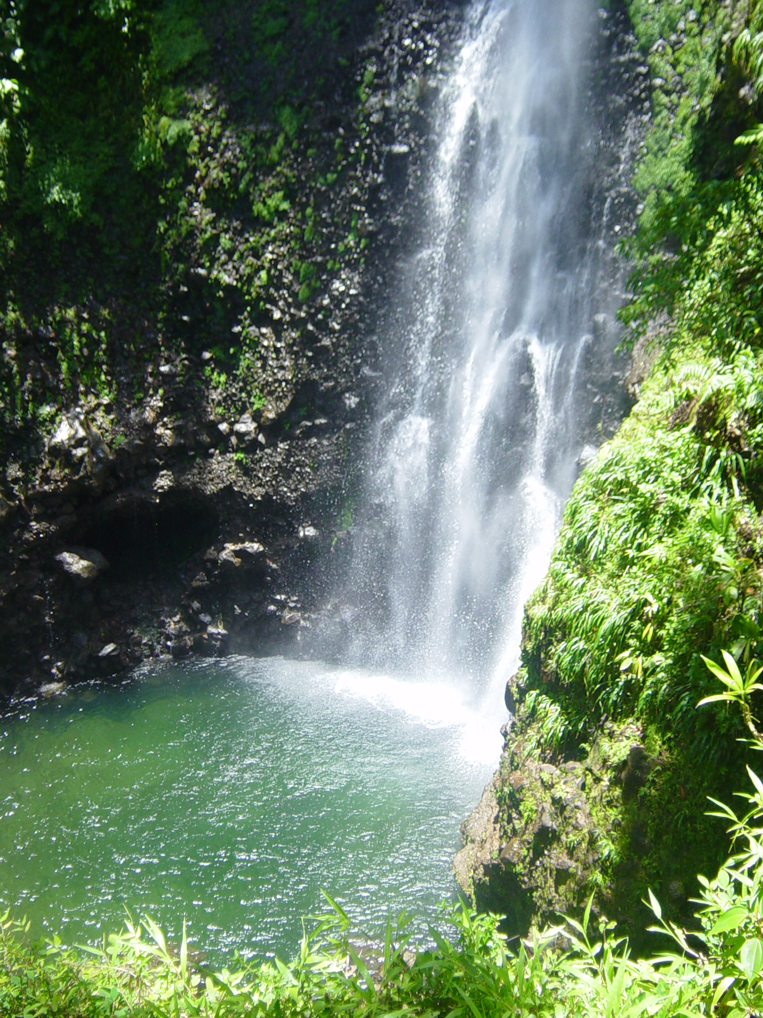 Middleham Falls, Dominica, is a fantastic 45 min hike through a tropical forest. It's scenery is utterly breath taking and well worth the hike! It is one of the biggest waterfalls in Dominica with a beautiful emerald pool at the bottom which is about 10-15 ft deep. This attraction is amazing and is breath taking when you reach it.